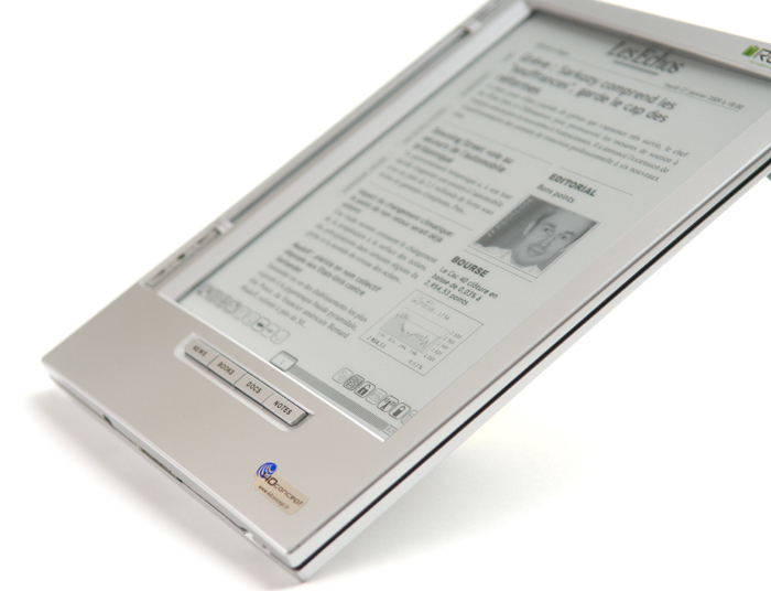 iRex iLiad Book Edition e-paper device